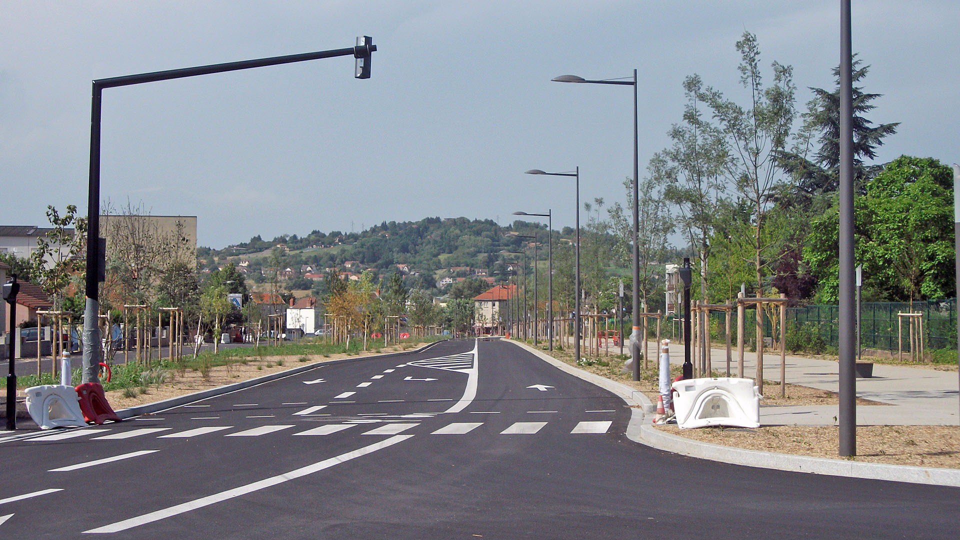 Boulevard urbain (new road) in the direction of the north, at intersection with boulevard du 8 Mai 1945